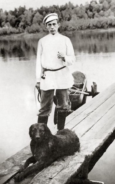 Sergei Rachmaninoff, in 1899, aged 26, pictured on the Khopyor River